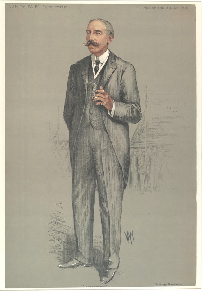 Men of the Day No.1302: Caricature of Sir G Ranken Askwith KC KCB (1861-1942). Caption reads: "The Conciliator"